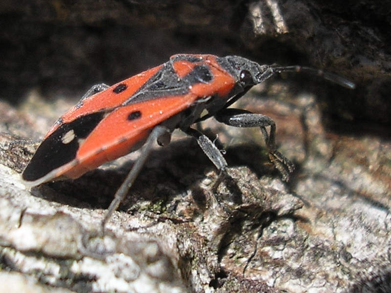 Seed bug; Melanocoryphus albomaculatus Location: Ballans, 17160 (Charente-Maritime) France Keywords: red, black